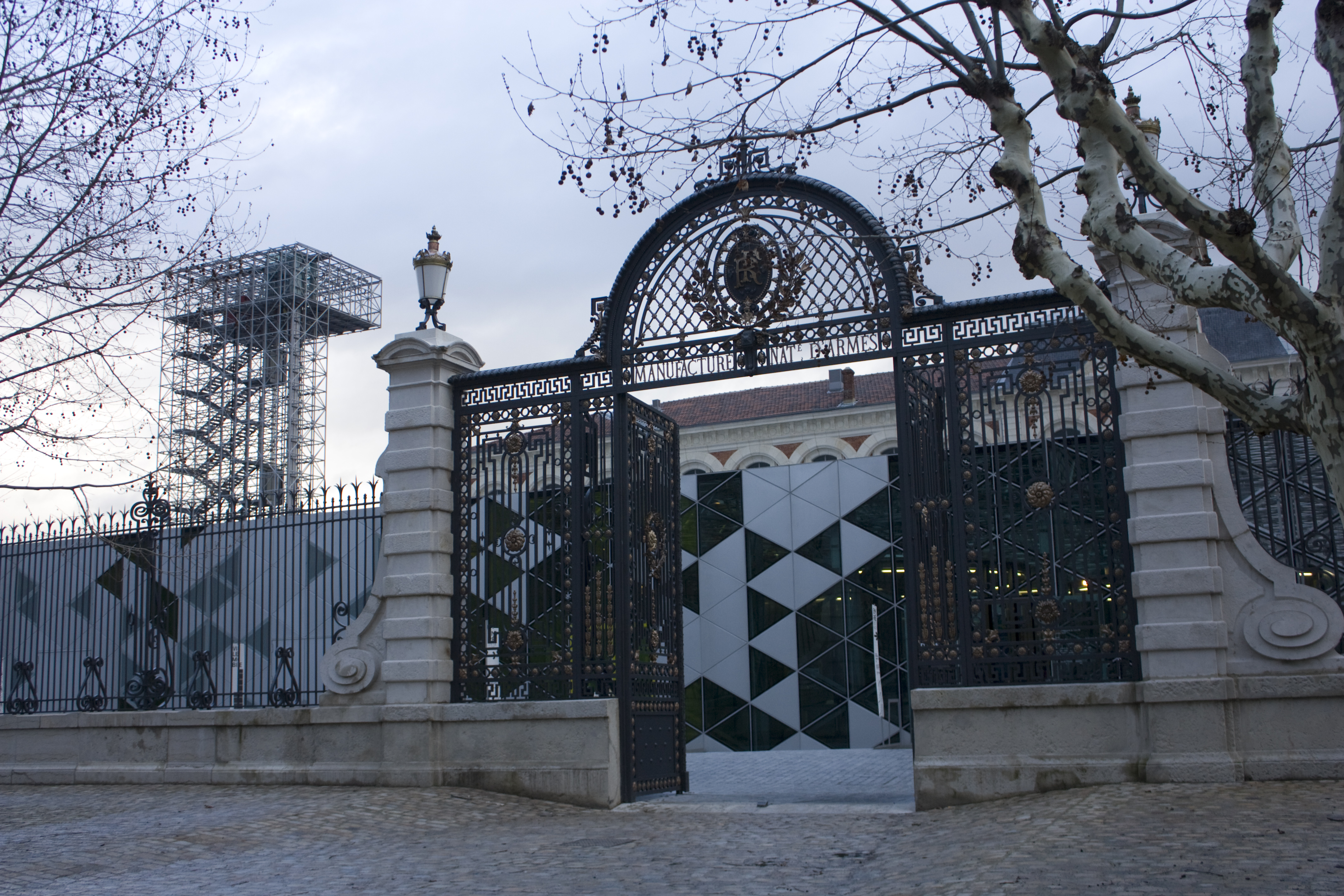 The portal de la Manufacture d'Armes, scrolls and foliage "guilded" with copper leafs ! ...